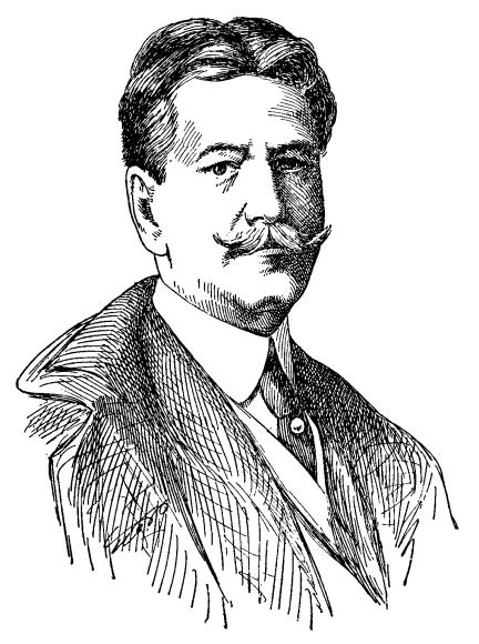 Line drawing of Langdon Elwyn Mitchell